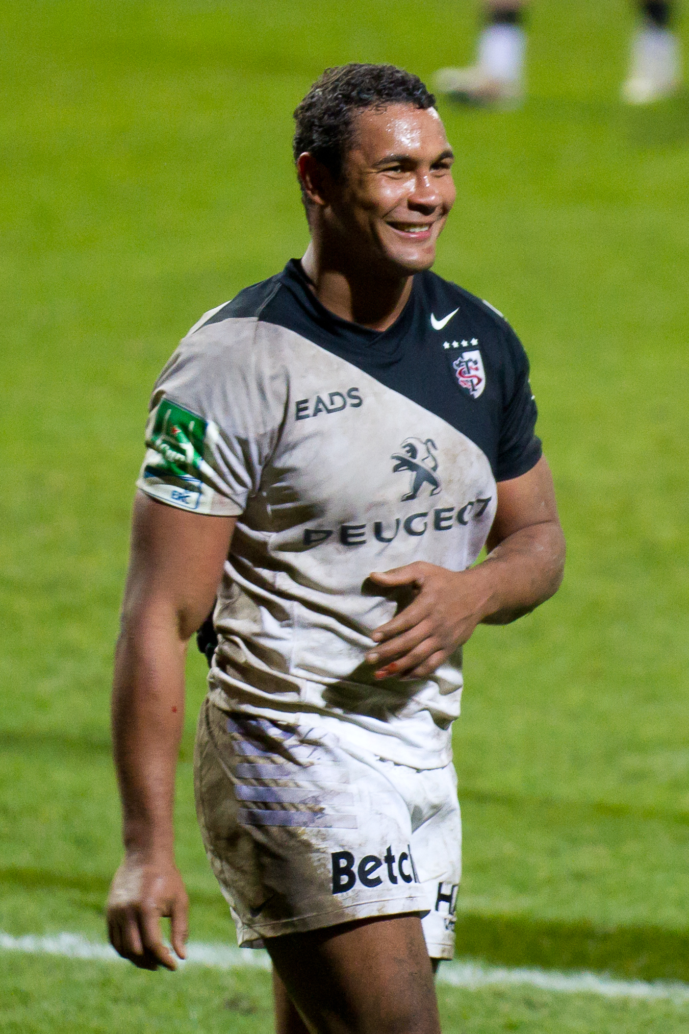 Heineken Cup 2011-2012 — 14 January 2012, Stade Ernest-Wallon. Match between: Stade toulousain — Connacht Rugby